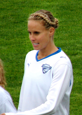 Leslie Osborne of the (WPS) Womens Professional Soccer Club, Boston Breakers.